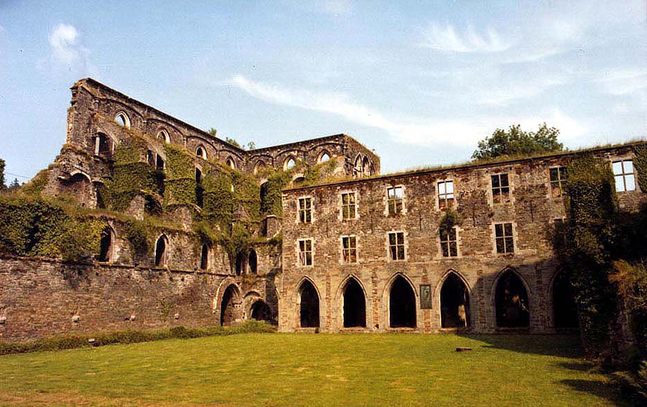 Villers-la-Ville (Belgium), ruins of the nave, right transept and northern part cloister of the abbey church (XIIIth century).